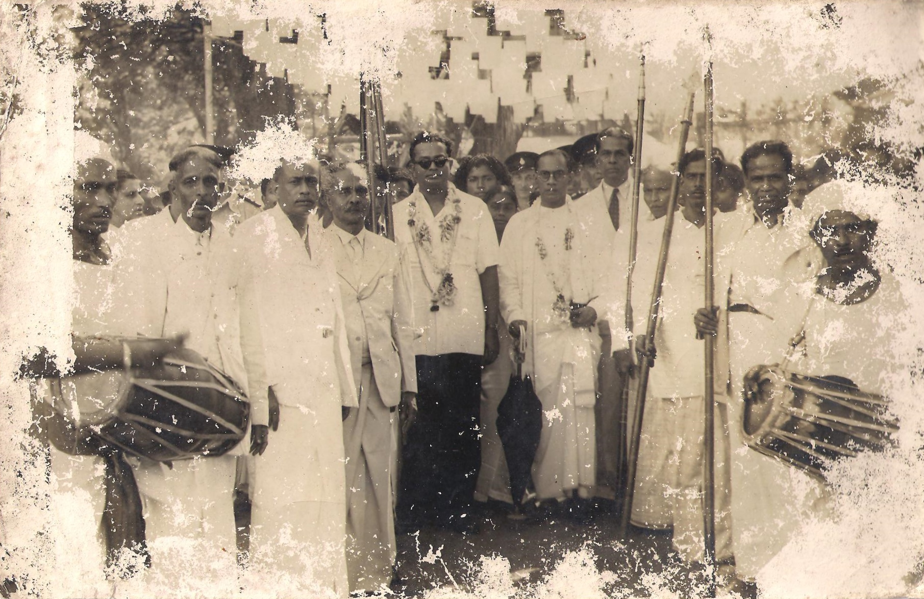 Hon.S.W.R.D.Bandaranayaka with Sir Bennet Soysa, Hon Maithripala Senanayaka, Mr M.H.Covis Appuhamy and Mr P.G.Mendis in Kandy Ceylon as the United National Party Minister of Health and Local Government.